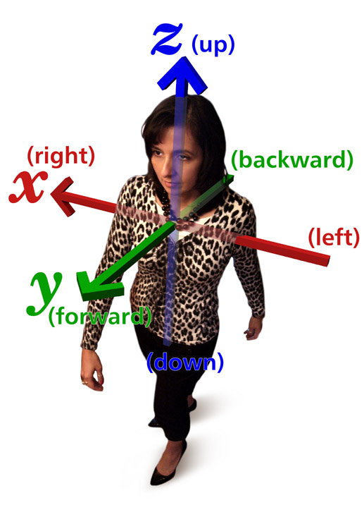 Diagram of Cartesian axes applied to a human being.